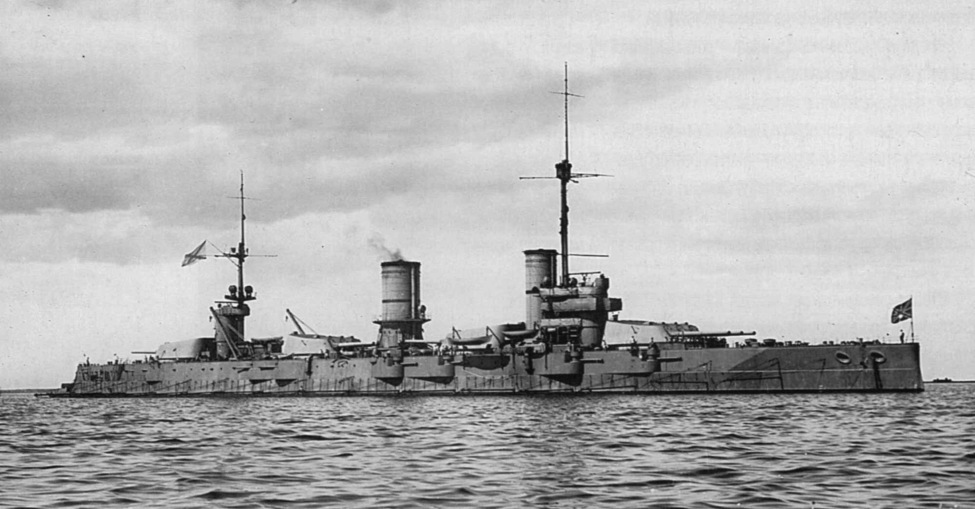 Imperial Russian battleship Poltava.